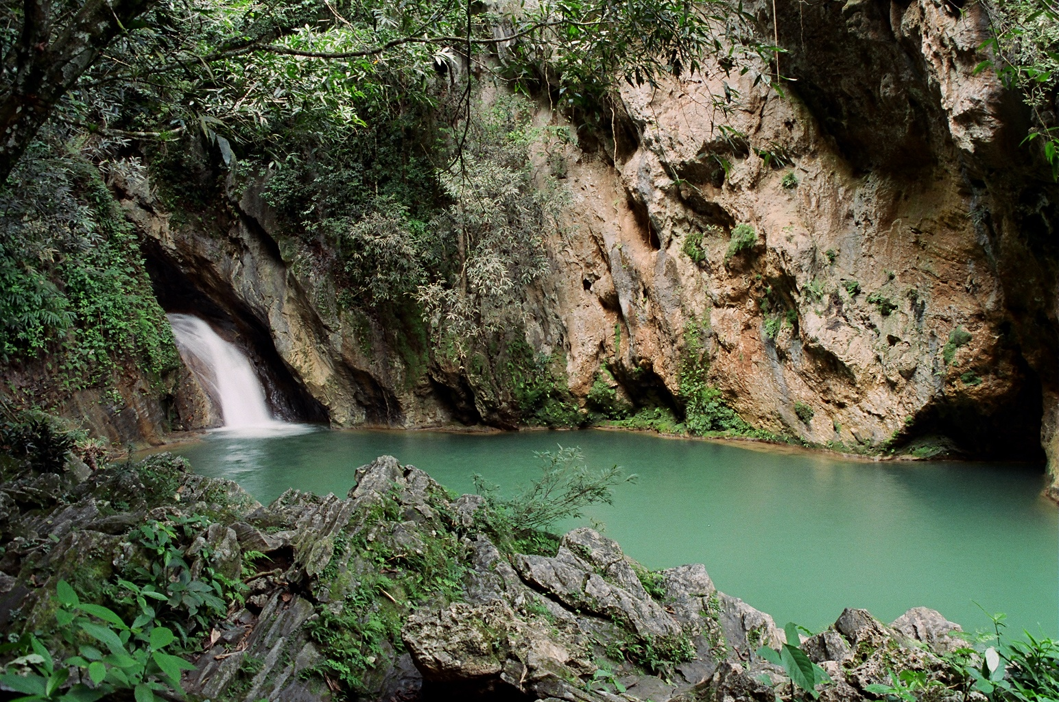 Wilder's stock, one of the many naturals pools in Caburni river, Cuba